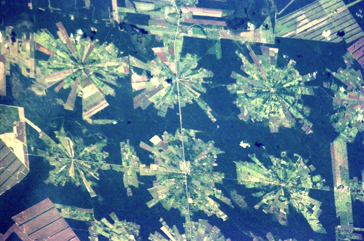 NASA photo of deforestation in Tierras Bajas project, Bolivia, from ISS on April 16, 2001.